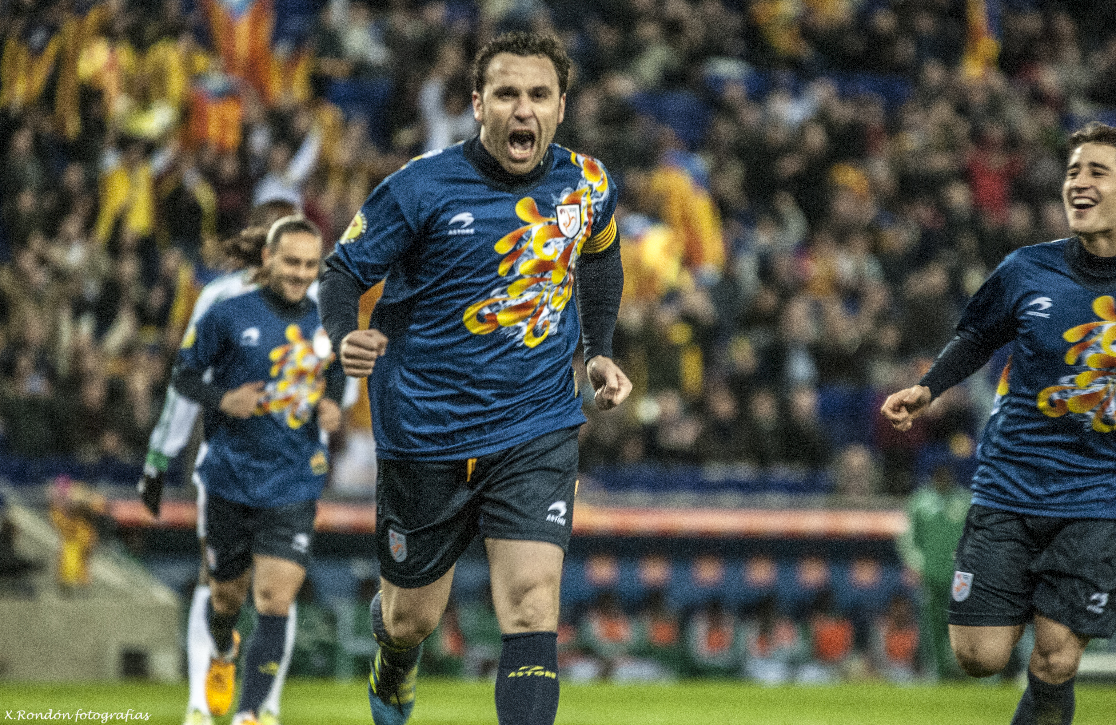 Sergio González celebrates after scoring in friendly match Catalonia vs. Nigeria